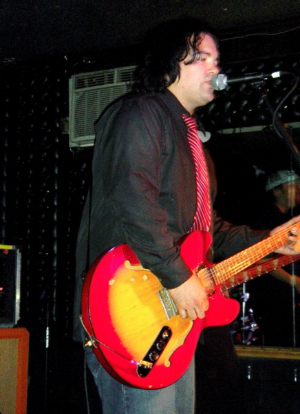 Jon Auer, singer for The Posies, performing.